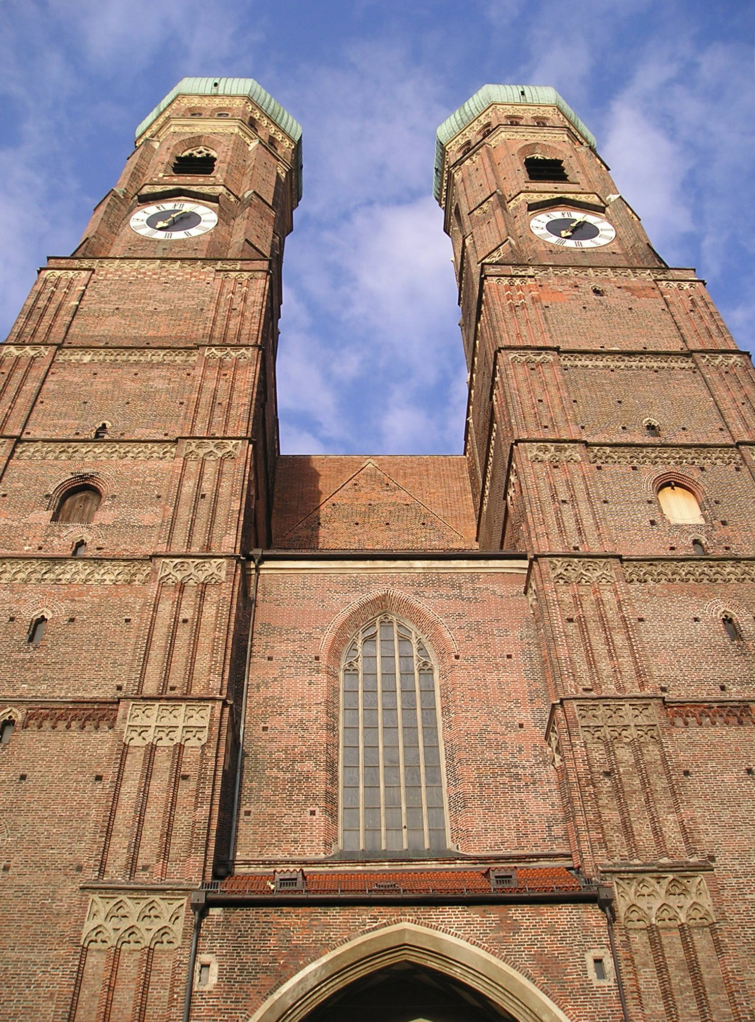 Front of the Munich Frauenkirche; photo taken in July 2005 by Bmdavll.